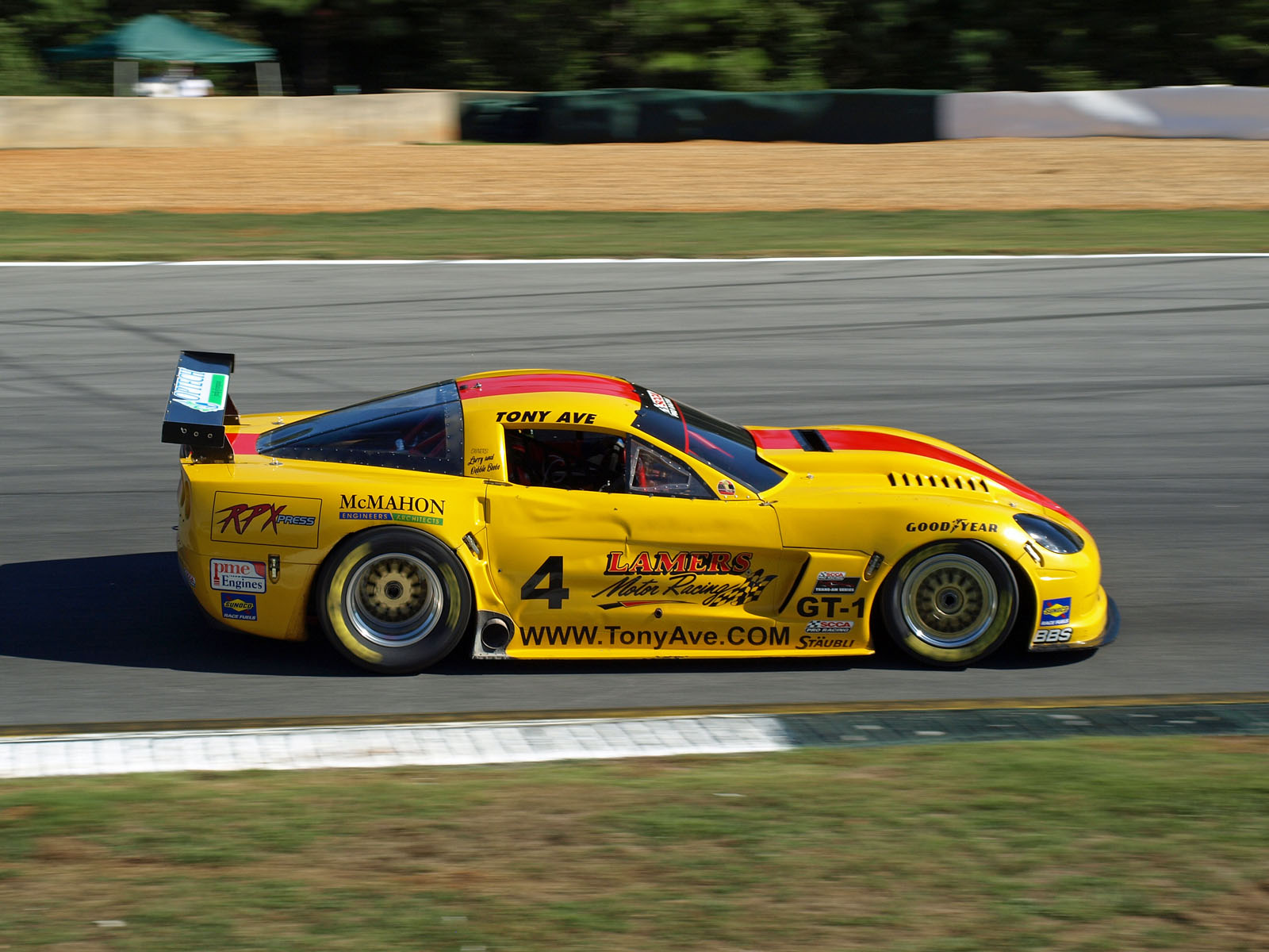 Tony Ave's Chevrolet Corvette during the Trans-Am Series race at the 2011 Petit Le Mans weekend at Road Atlanta.